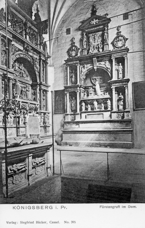 The tomb of Albert, Duke of Prussia, in Kaliningrad Cathedral designed by Cornelis Floris de Vriendt